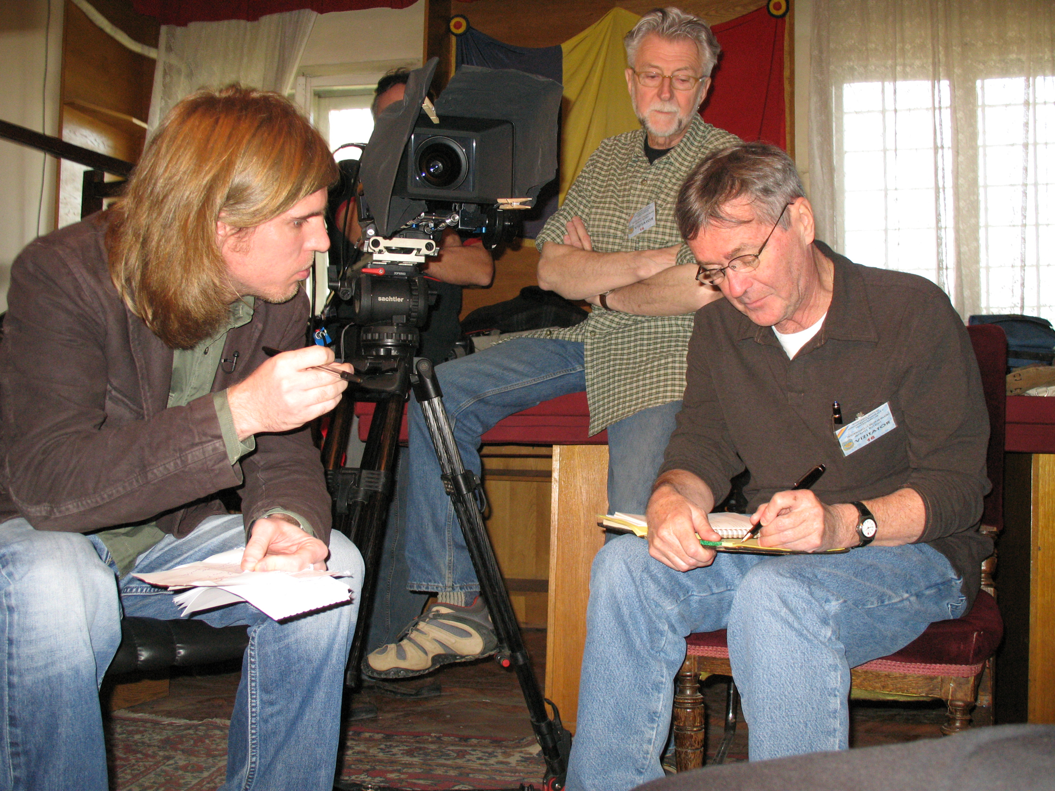 Paul Radu, Richard, Young, and Robert Bilheimer in Bucharest, Romania while working on the film "Not My Life"